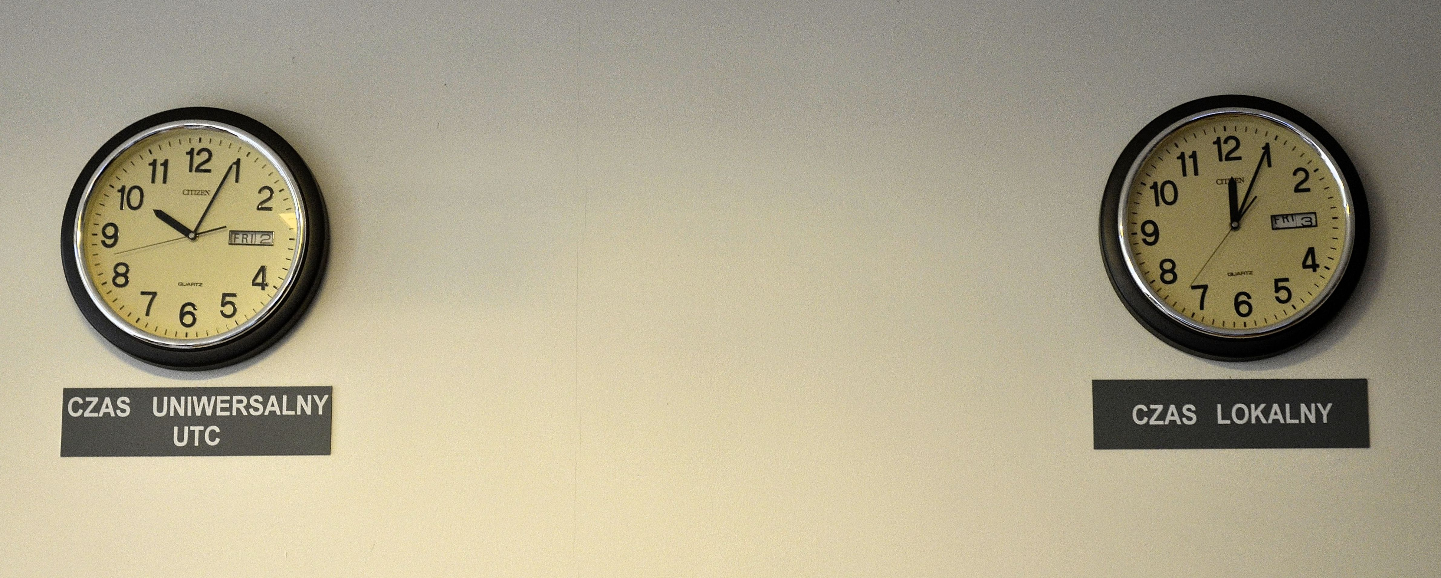 Institute of Meteorology and Water Management in Warsaw